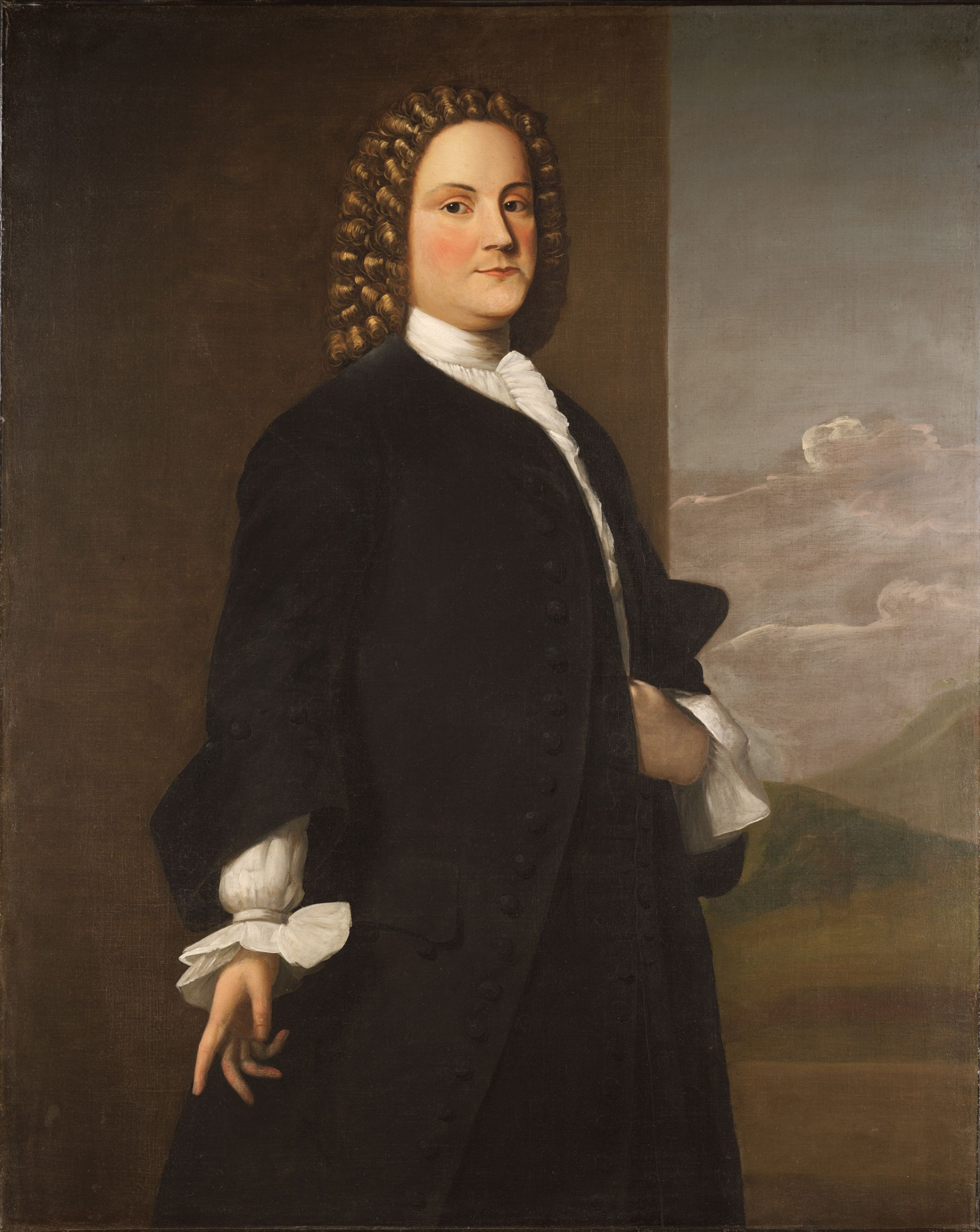 Benjamin Franklin (1706-1790)